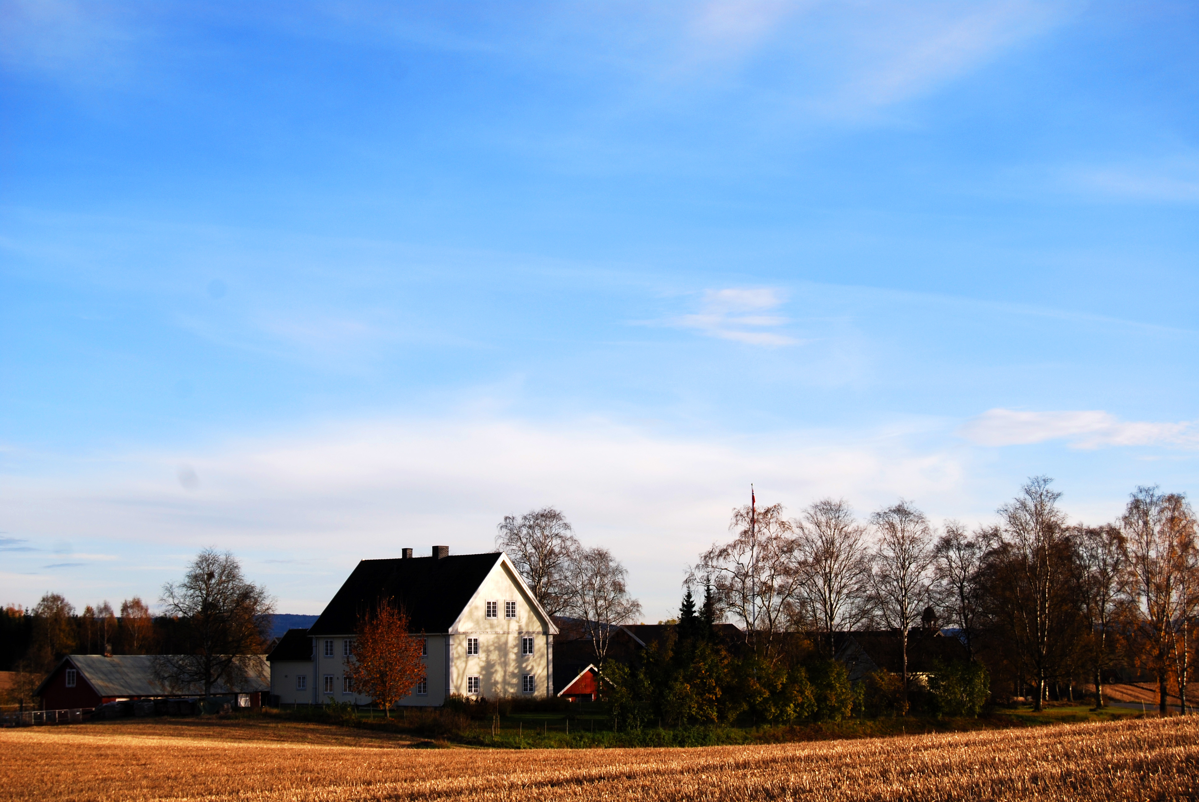 Ilseng farm